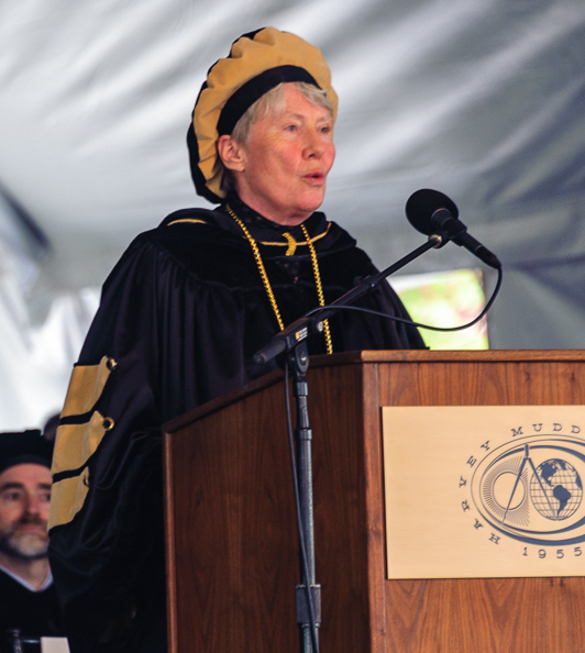 President Maria Klawe at Graduation